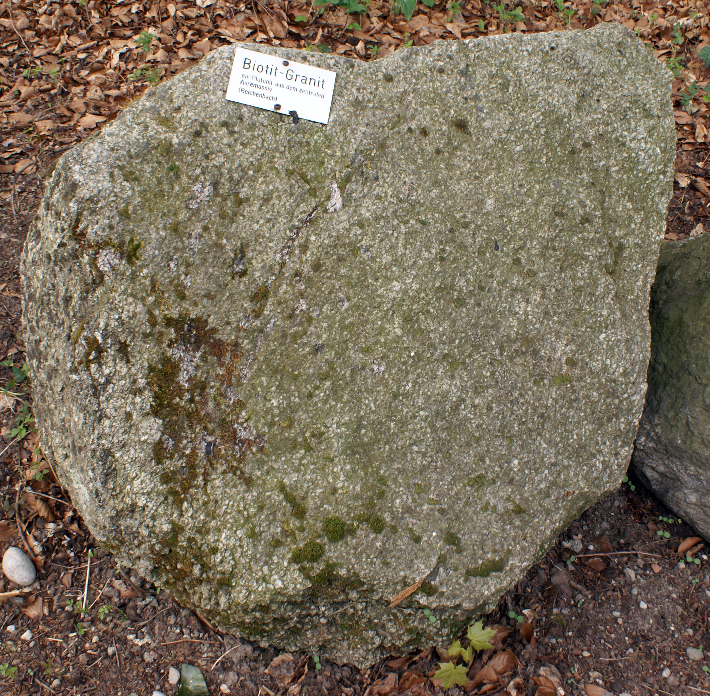 Biotite granite.